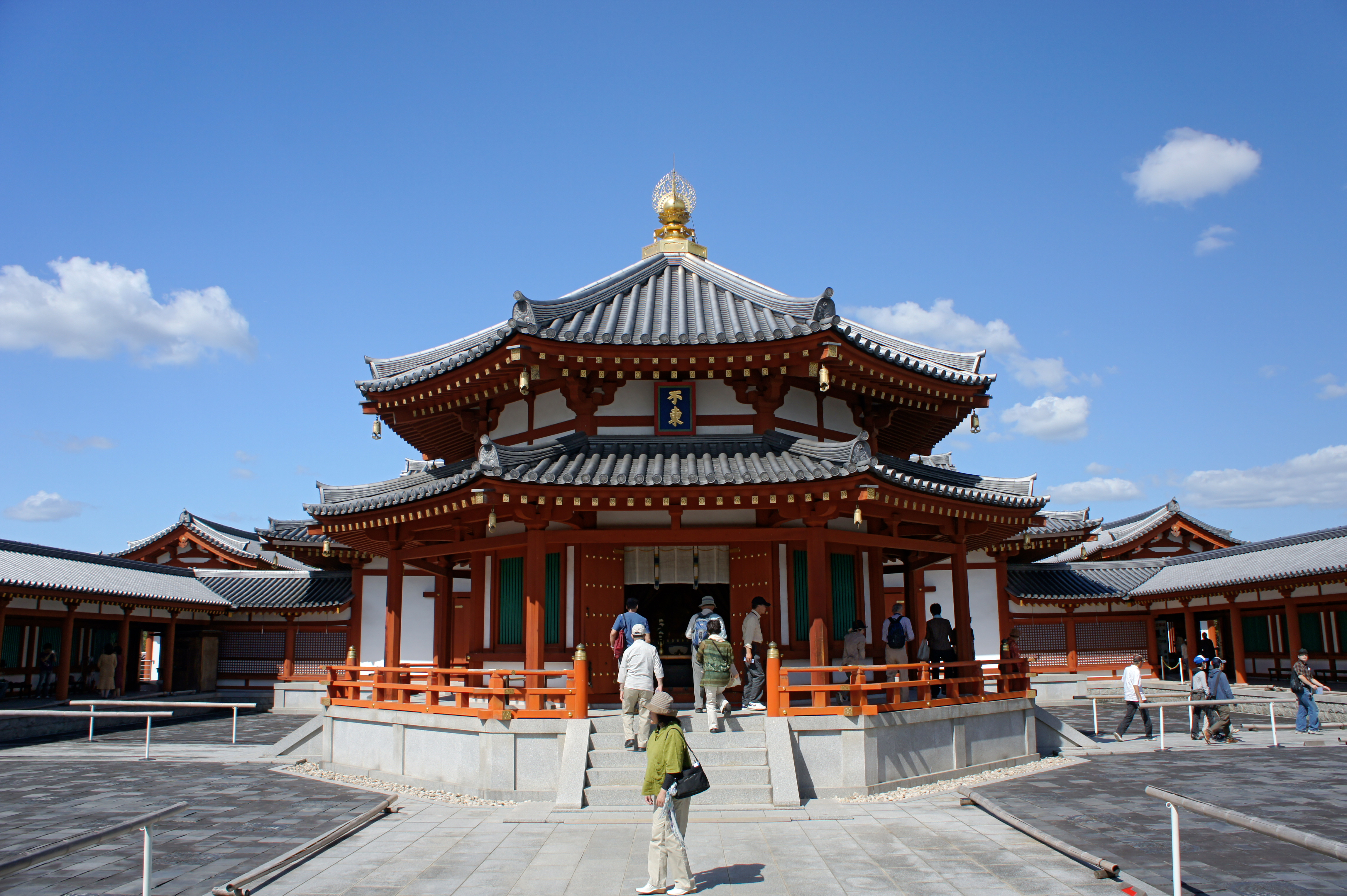 Yakushi-ji is a Buddhist temple in Nara, Nara prefecture, Japan. It was registered as part of the UNESCO World Heritage Site "Historic Monuments of Ancient Nara".